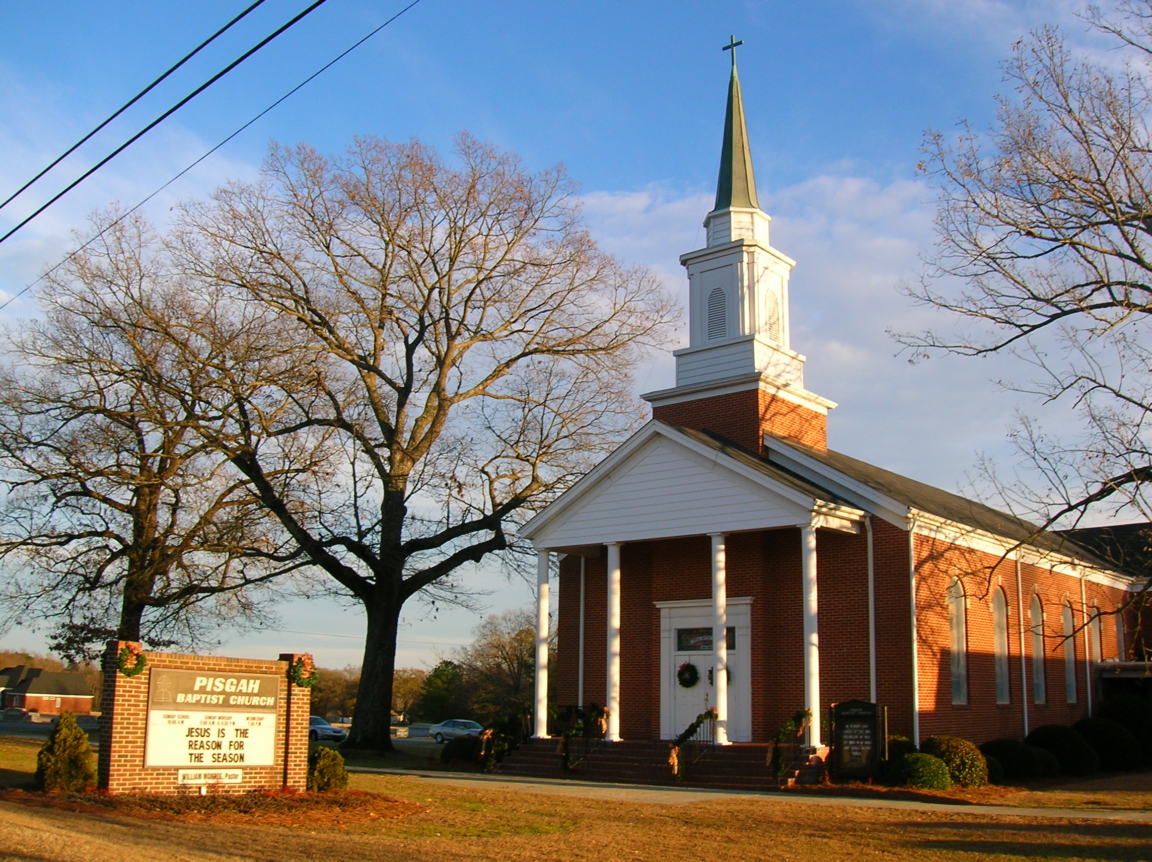 A picture of Pisgah Baptist Church in Four Oaks, North Carolina, USA.